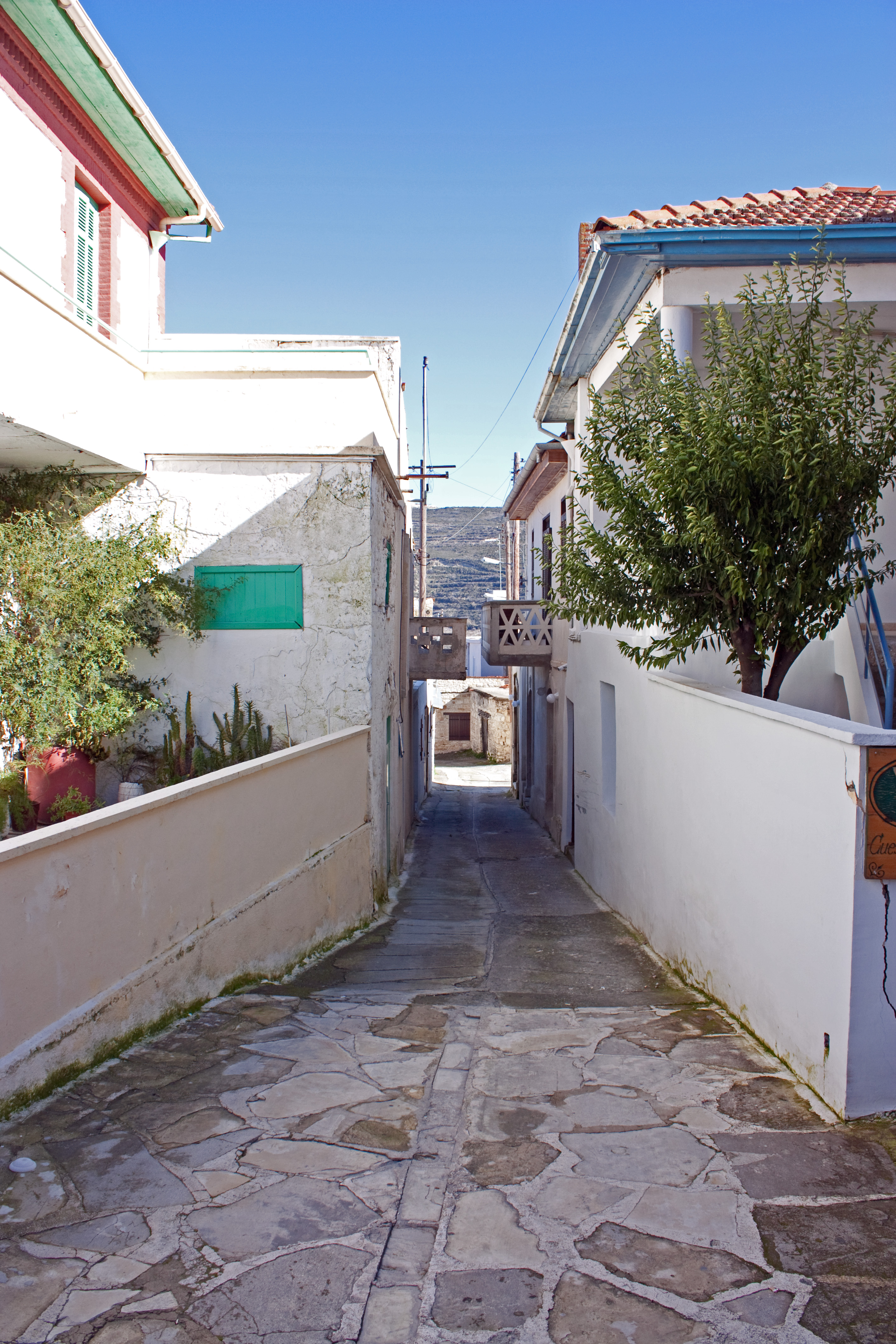 Street in Omodos, Cyprus near the Monastery of Stavros.